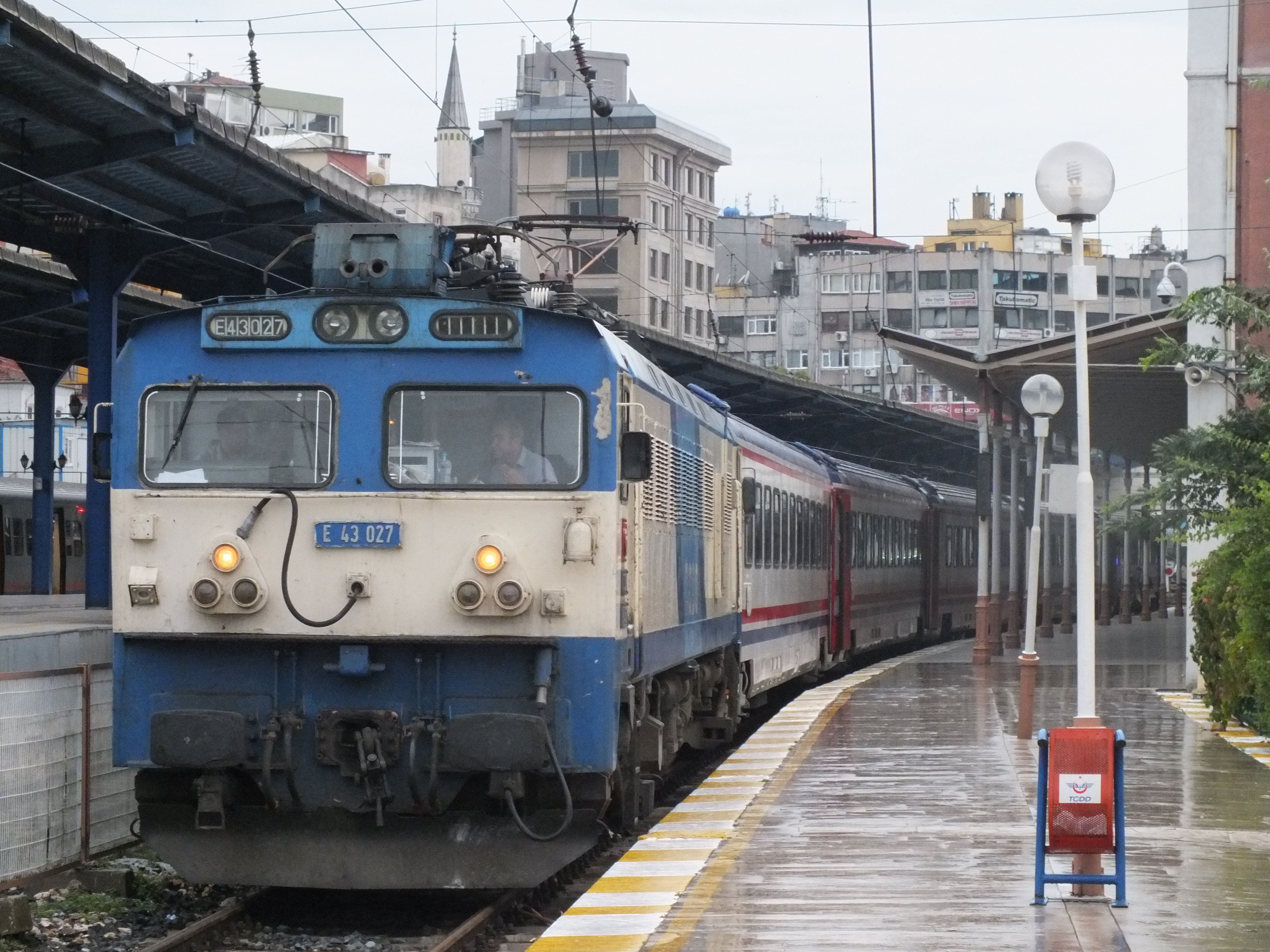 The Istanbul-Cerkezkoy Regional at Istanbul Sirkeci station waiting to depart.